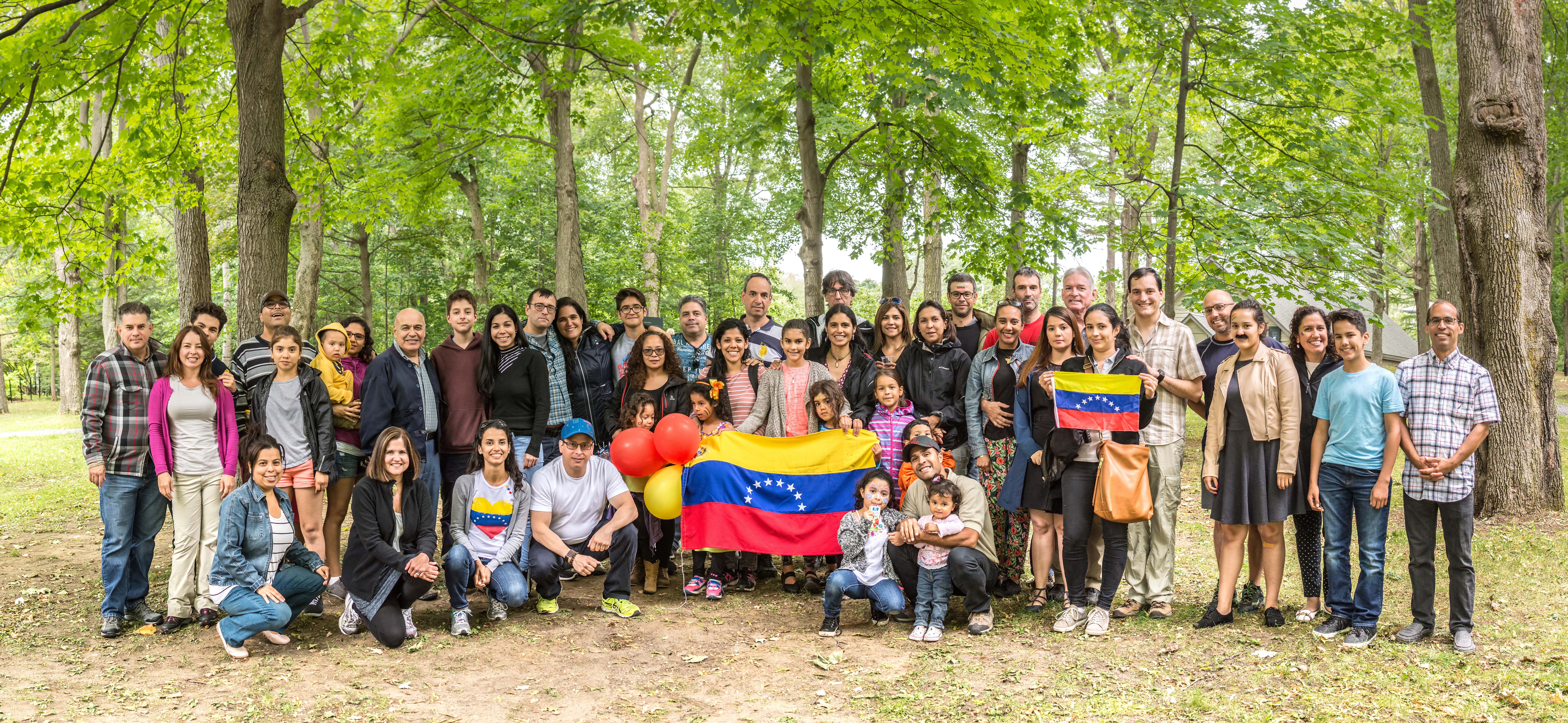 Venezolanos in Bois de Coulonge Park, Québec, Cánada